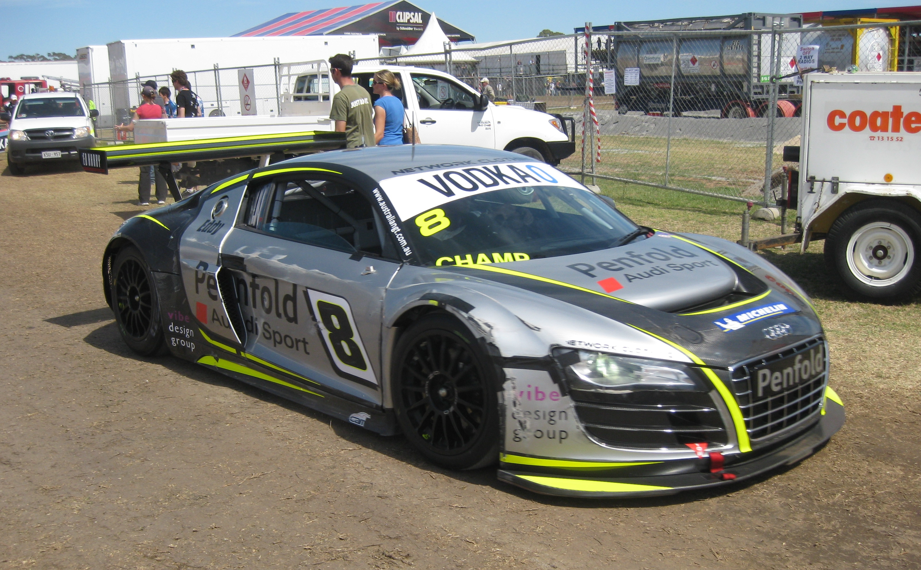 Audi R8 LMS of Mark Eddy at the Adelaide Parklands Circuit for the opening round of the 2010 Australian GT Championship